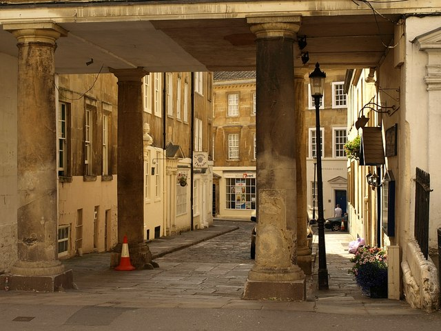 Pierrepont Place, Bath A side street off Pierrepont Street approached through a portico supported by Tuscan columns.